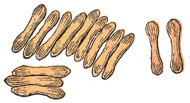 Human red blood cells in profile and forming rouleaux